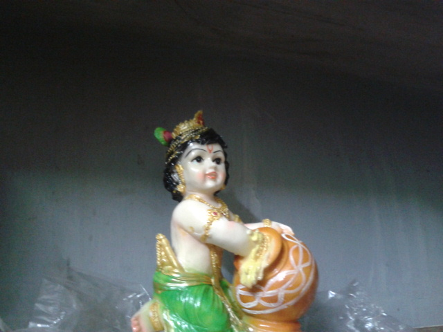 The one of the most Hindu God